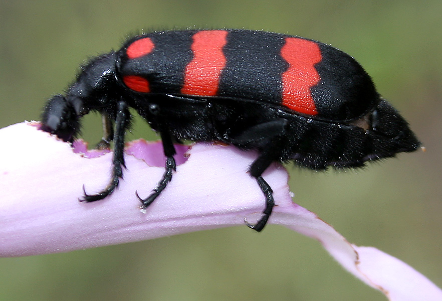 Orange Blister Beetle Hycleus species in the phaleratus group feeding on Ipomoea carnea (syn. Ipomoea fistulosa)- Pink Morning Glory, Bush Morning Glory, Morning Glory Tree, Badoh Negro, Borrachero, Matacabra, • Marathi: बेशरम Besharam • Hindi: बेहया Behaya- in Hyderabad, India.